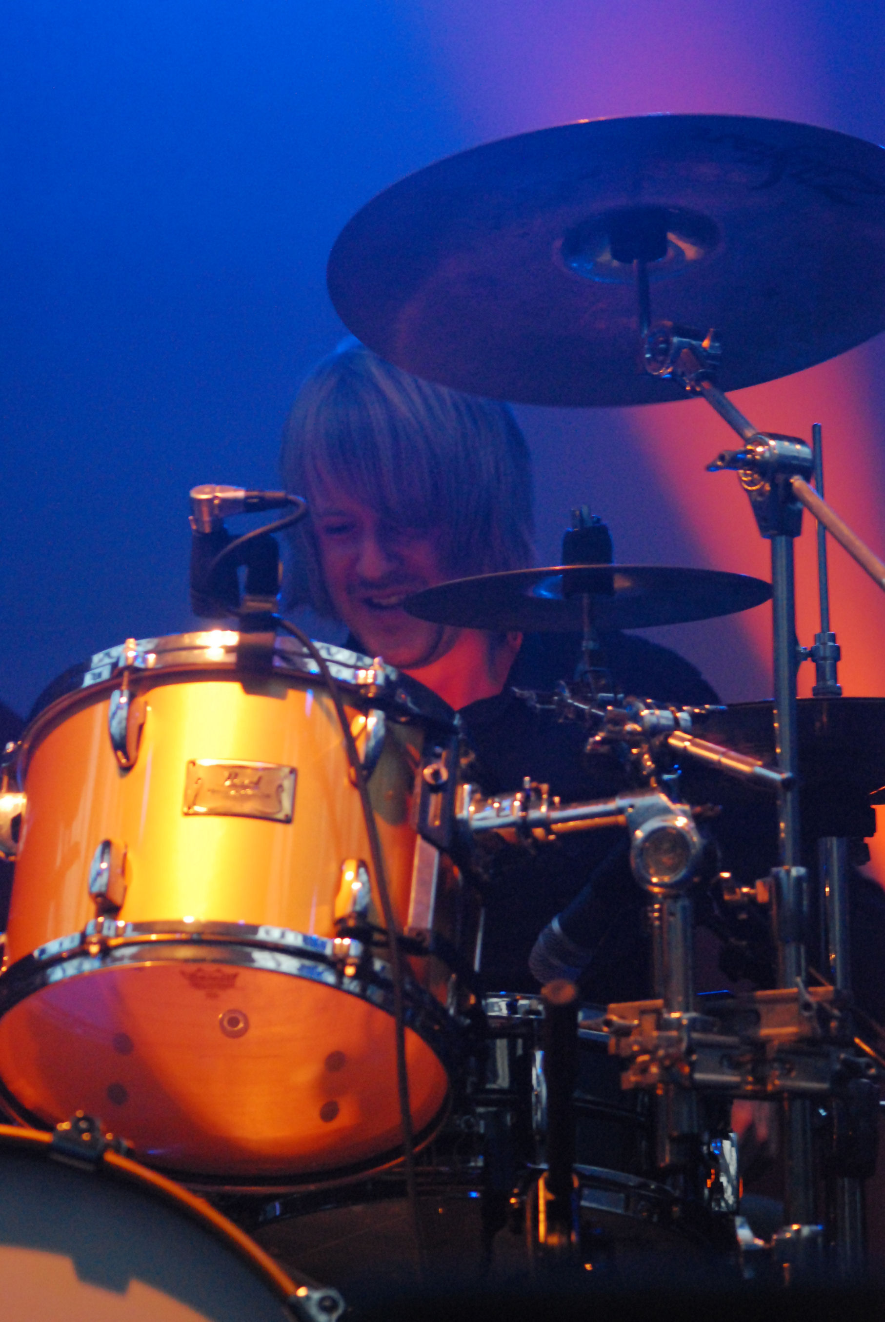 Paul Glover from Pure Reason Revolution during concert in TS Wisła in Kraków To zdjęcie powstało dzięki współpracy z Rock-Servis